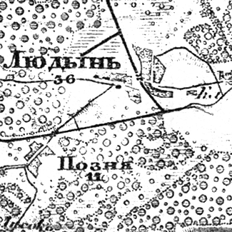 Liudyn on the map "Военно-топографическая карта Российской Империи" (known as "Schubert's map"), XX 5, 1866-1887 (issued in 1911).